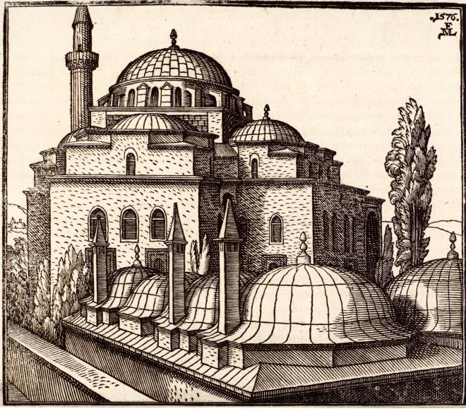 Melchior Lorck, Atik Ali Pasha mosque in Contantinople